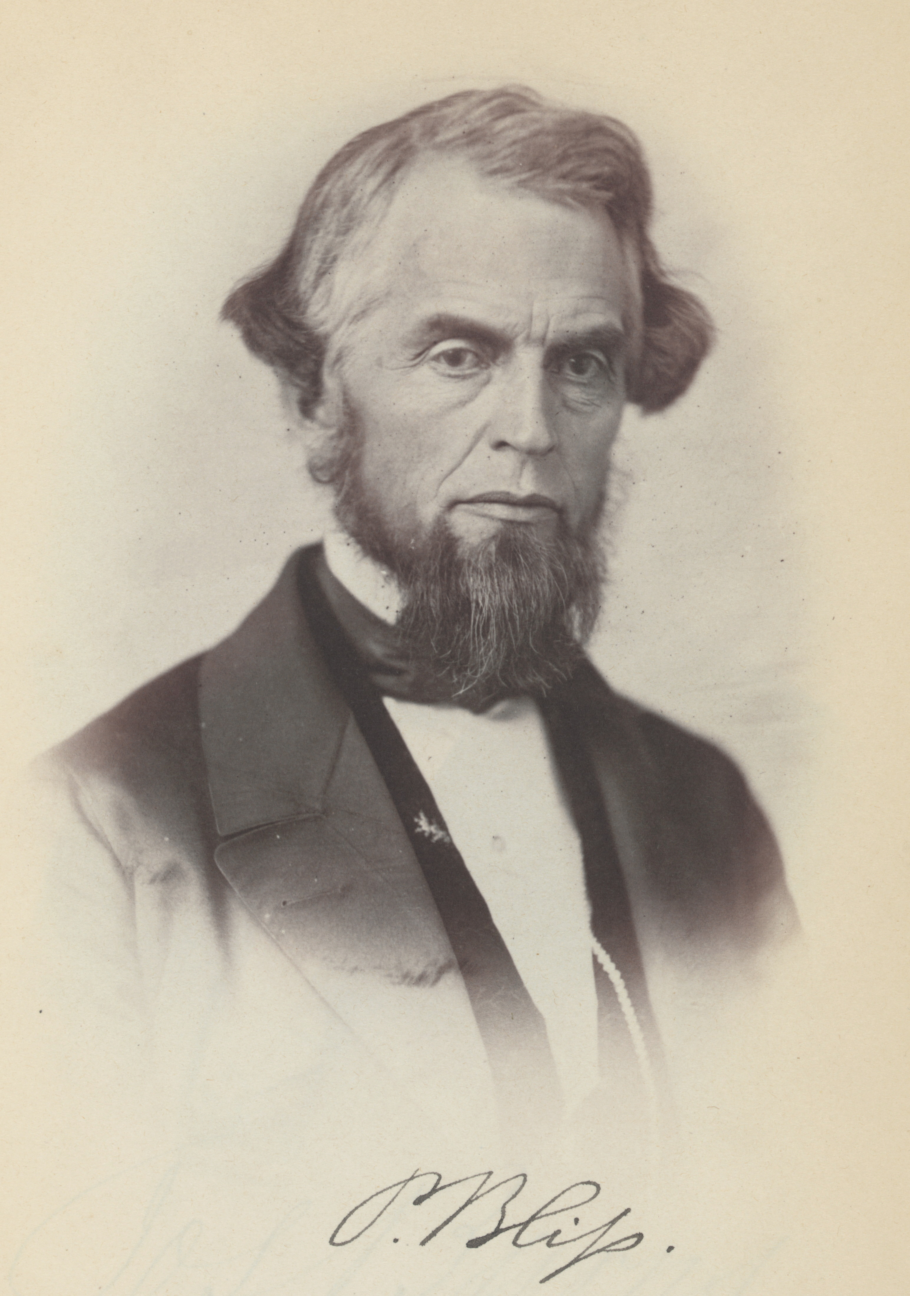 Philemon Bliss, congressman from Ohio and judge from Supreme Court of Missouri. From (1859) McClees' gallery of photographic portraits of the senators, representatives & delegates to the thirty-fifth Congress, Category:Washington: McClees and Beck, p. 206 .